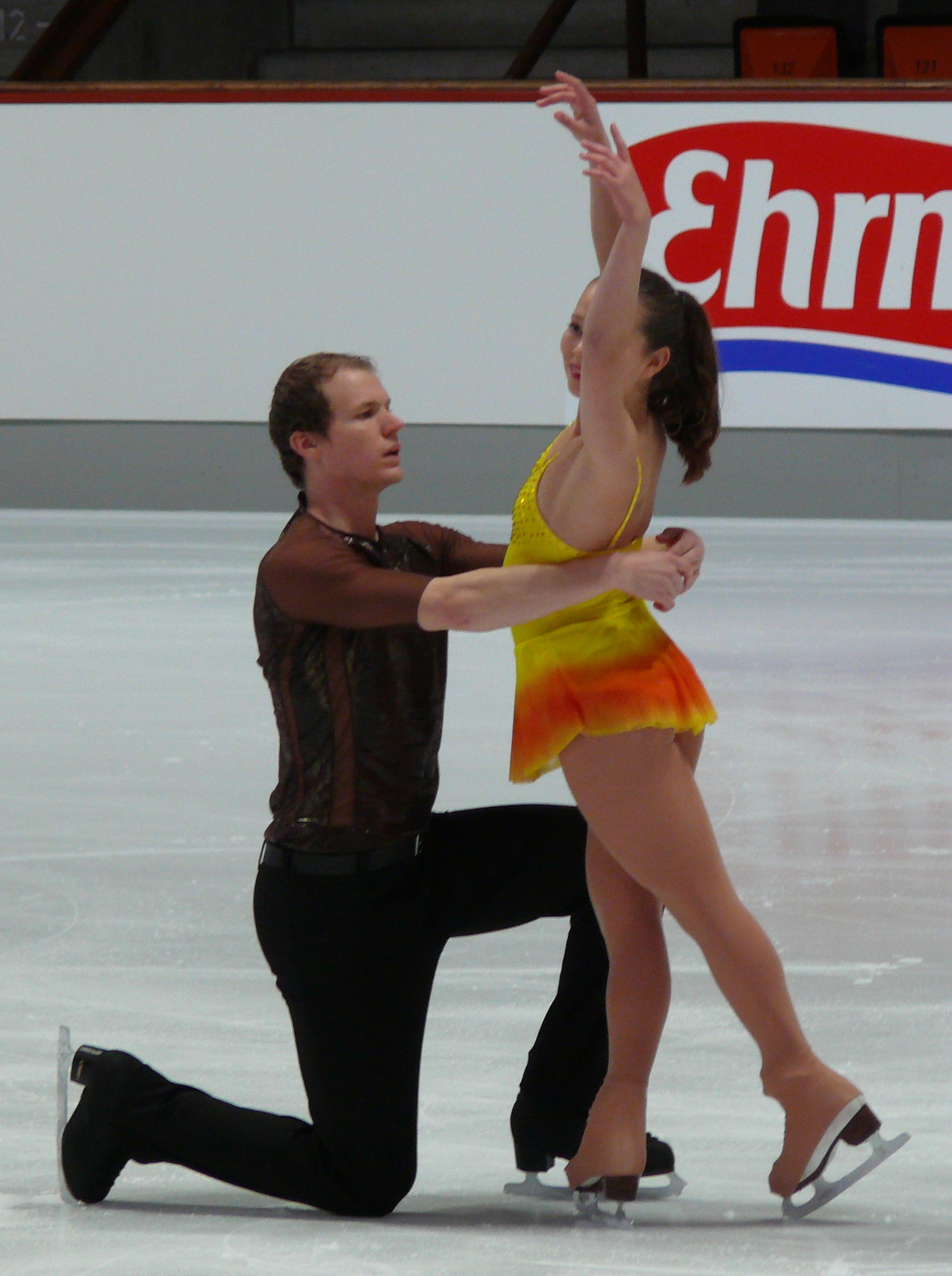 Ronja Roll and Gustav Forsgren (SWE) at their short program at the Nebelhorn Trophy 2012 in Oberstdorf/Germany